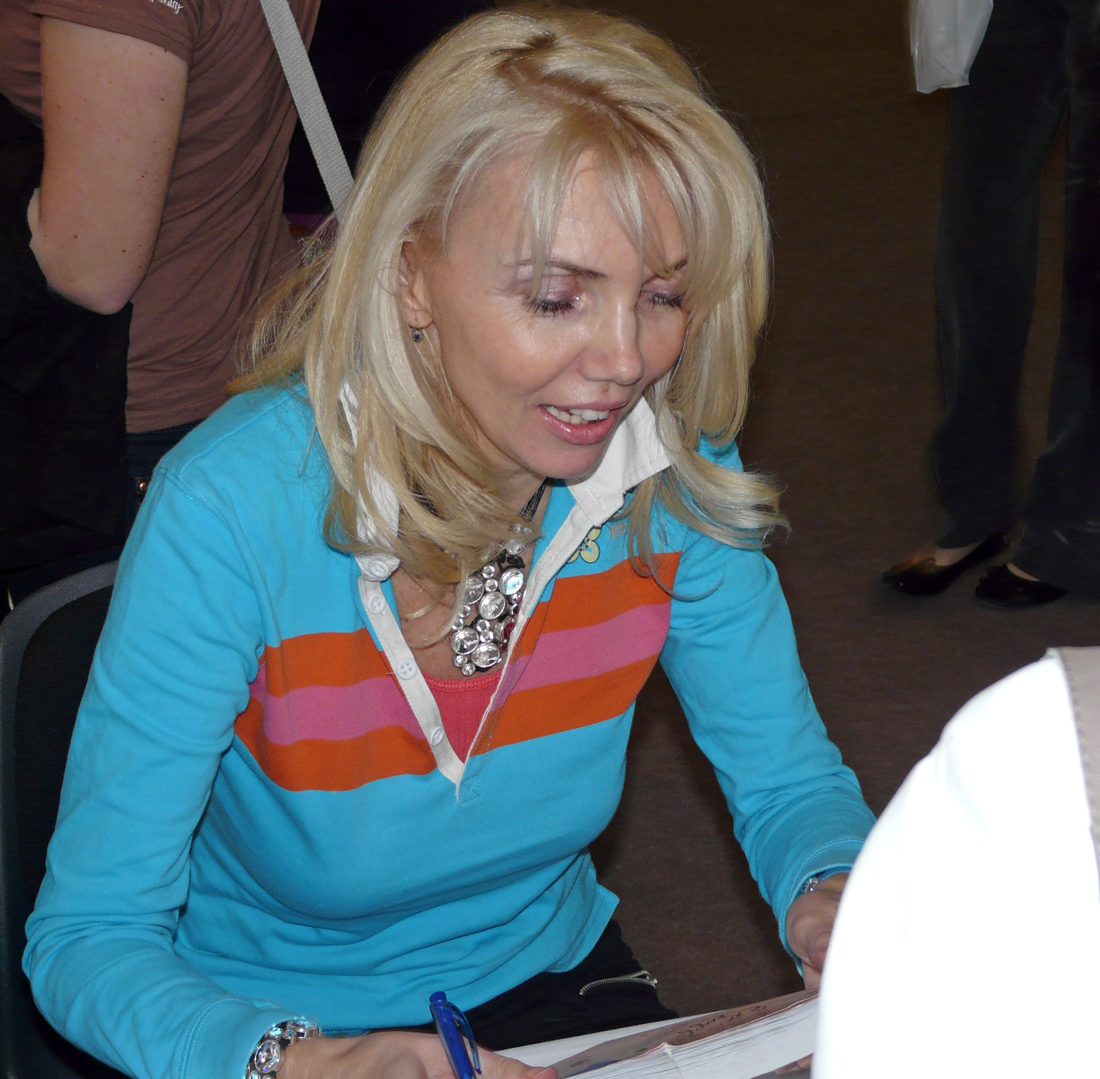 Hungarian Writer Éva Fejős. International Bookfest in Budapest, 2011.